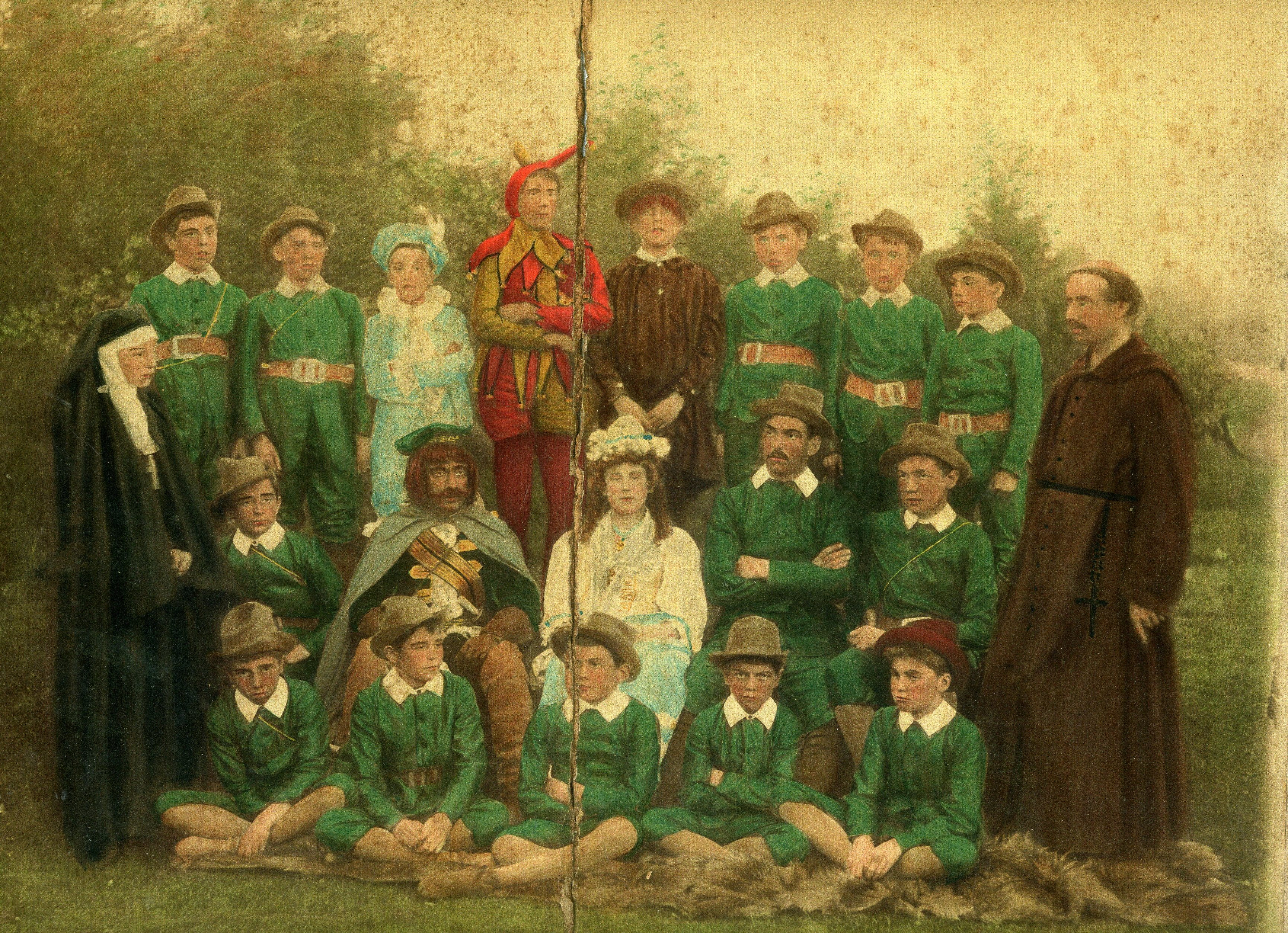 Scan of a photograph of the cast of the opera Robin Hood, opera by Colin McAlpin, composed ca. 1885. The photograph has been damaged by a vertical tear across the centre. The original sepia photograph appears to have been hand-coloured and touched-up.